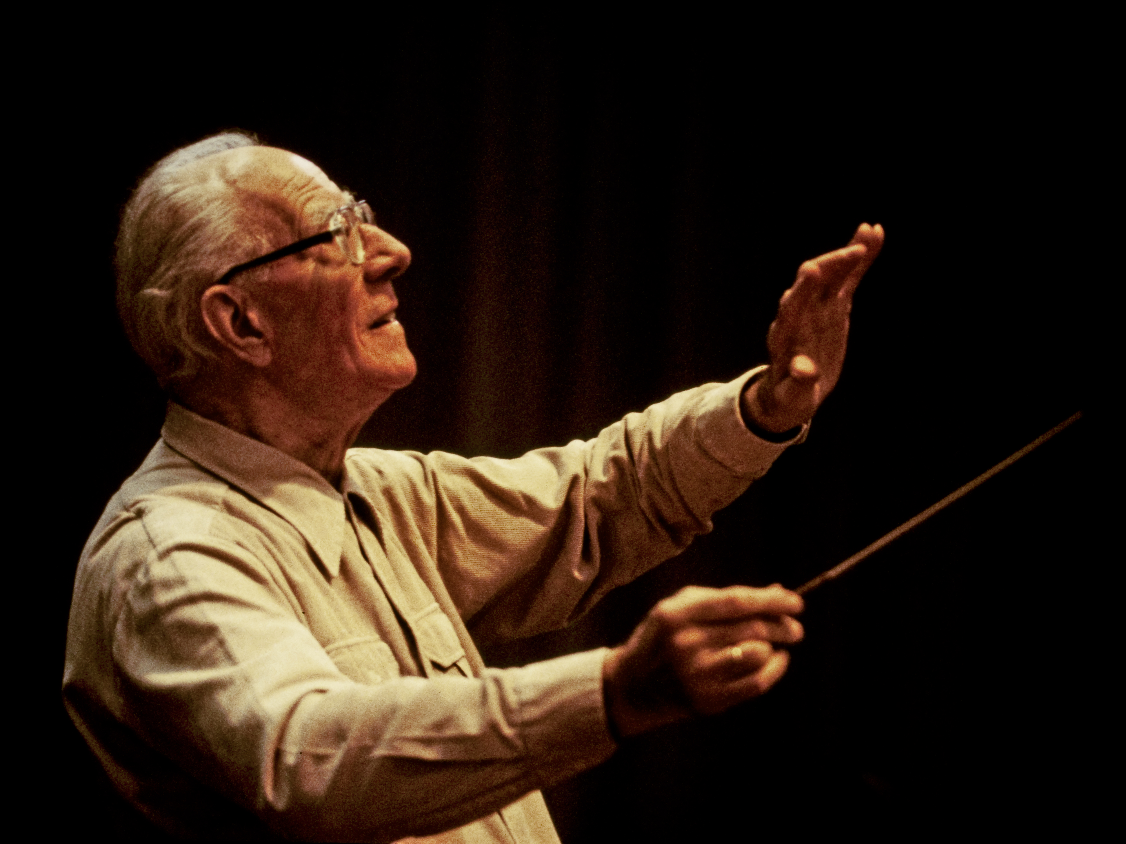 The German conductor Eugen Jochum